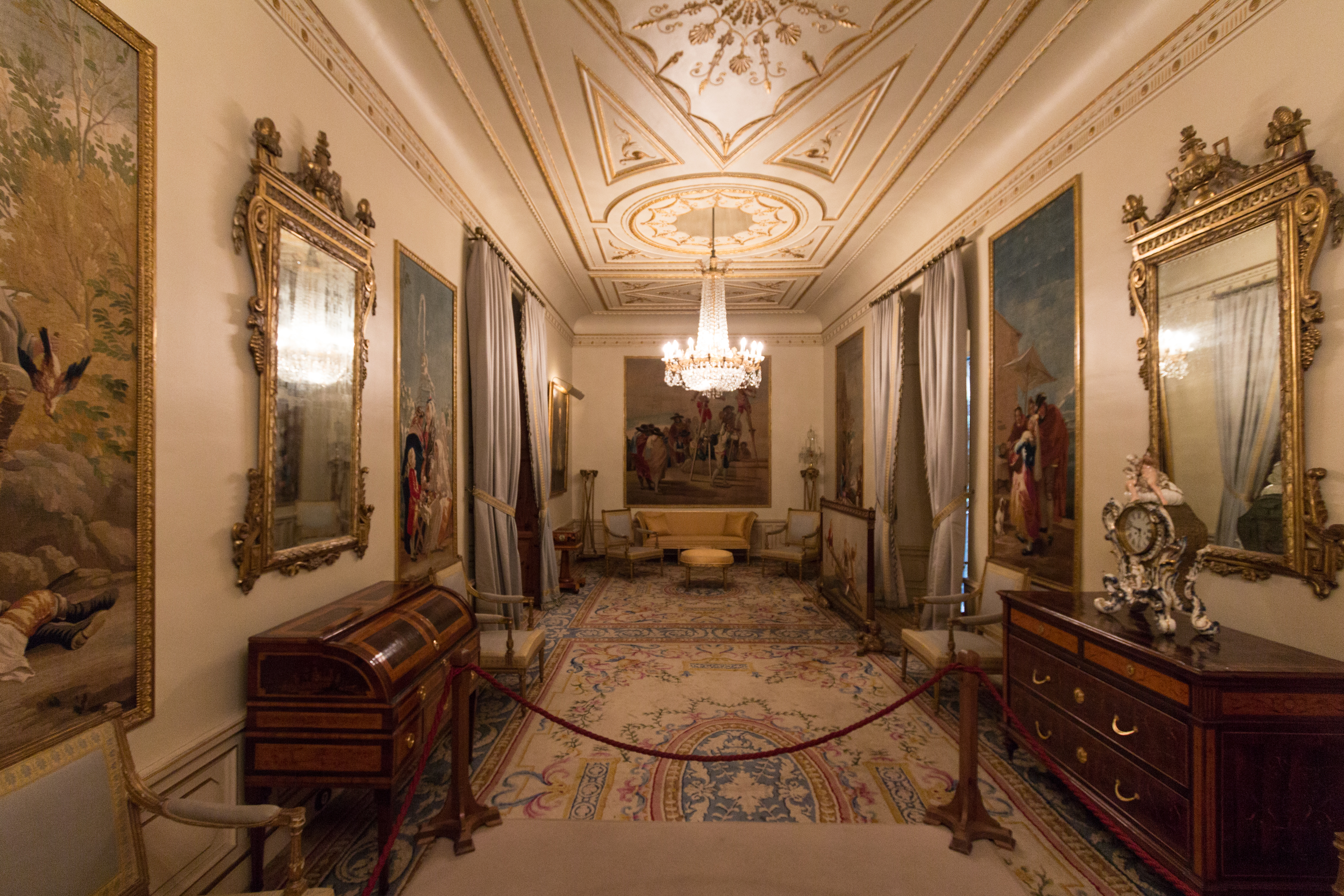 Córdoba, Spain.